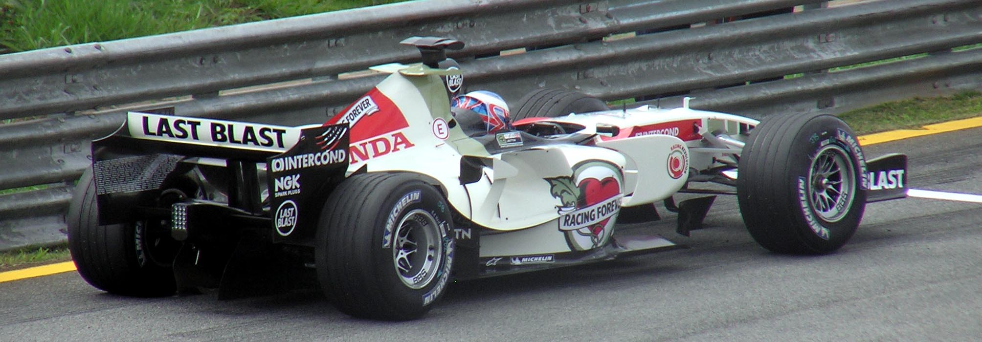 LAST BLAST: Jenson Button (Honda) at the 2006 Brazilian GP